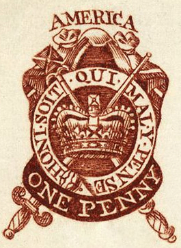 One penny stamp, cropped from proof sheet, removed proof number. The design consists of a mantle; St Edward's Crown encircled by the Order of the Garter; and a scepter and sword. At top is the word AMERICA; at bottom the denomination ONE PENNY.